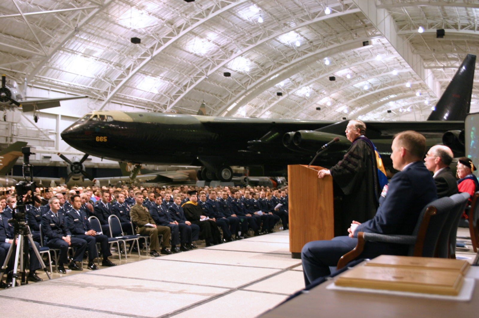 More than 230 scientists and engineers received graduate and doctorate degrees from the Air Force Institute of Technology during graduation ceremonies at the National Museum of the U.S. Air Force here March 21. Ohio Congressman Dave Hobson presents the commencement address to the class.